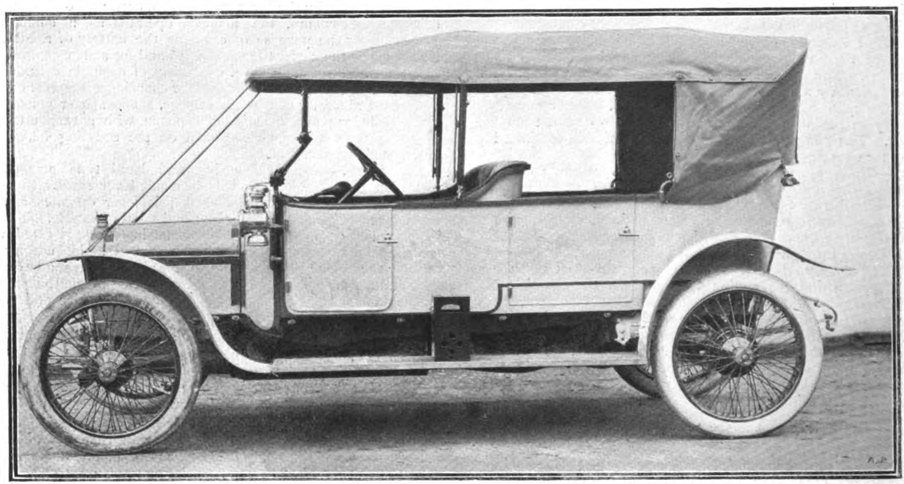 10-h.p. Austin car with Sirdar phaeton body to seat four people